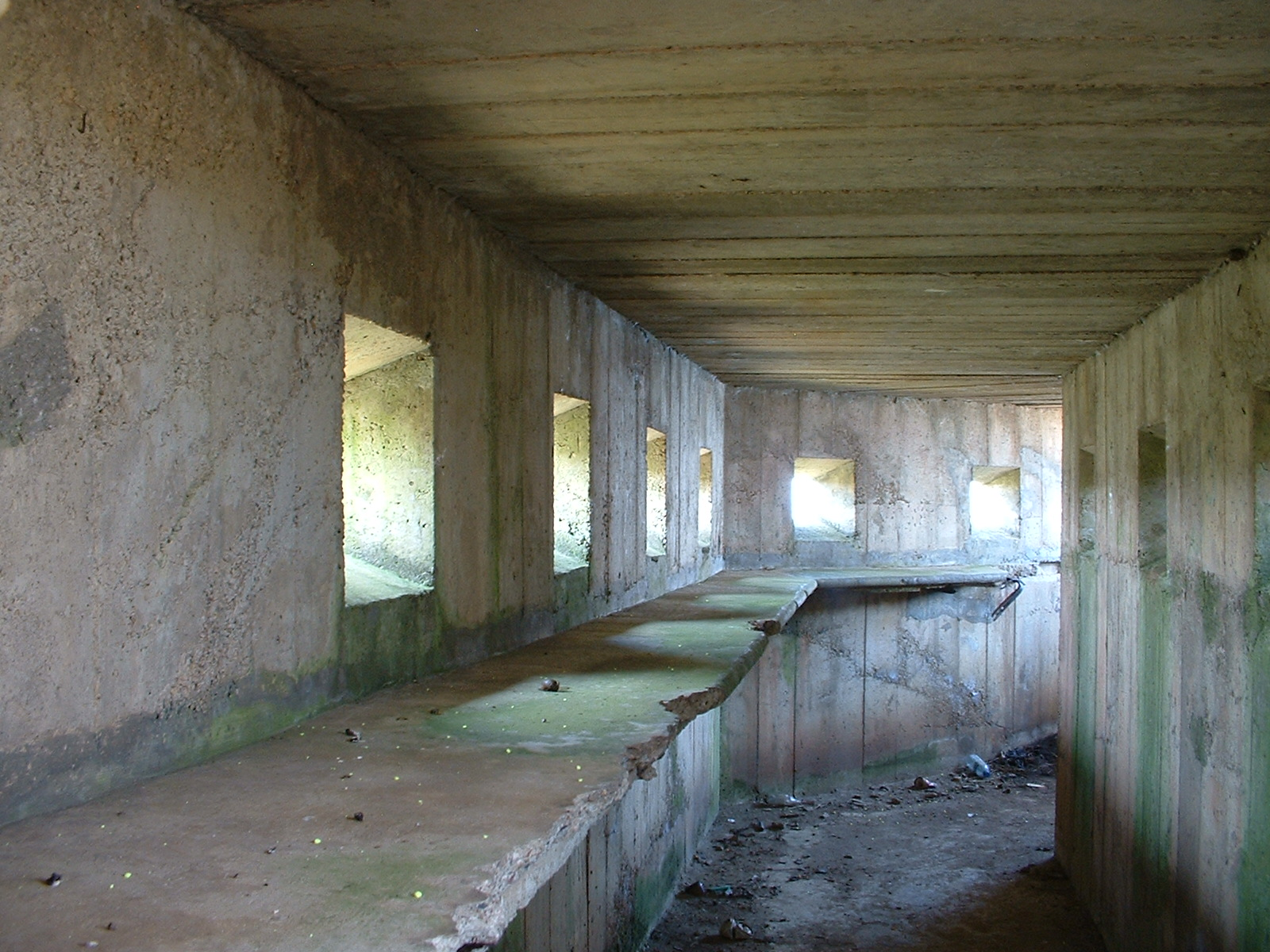 Exterior of same. Section post - Cayton Bay, OS reference TA072841 Easily accessible from public footpath. Photographed by Gaius Cornelius on 07-Jun-06. OS reference TA072841